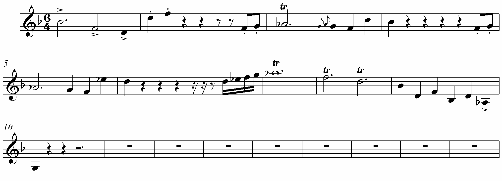 sheet music excerpt made in Sibelius